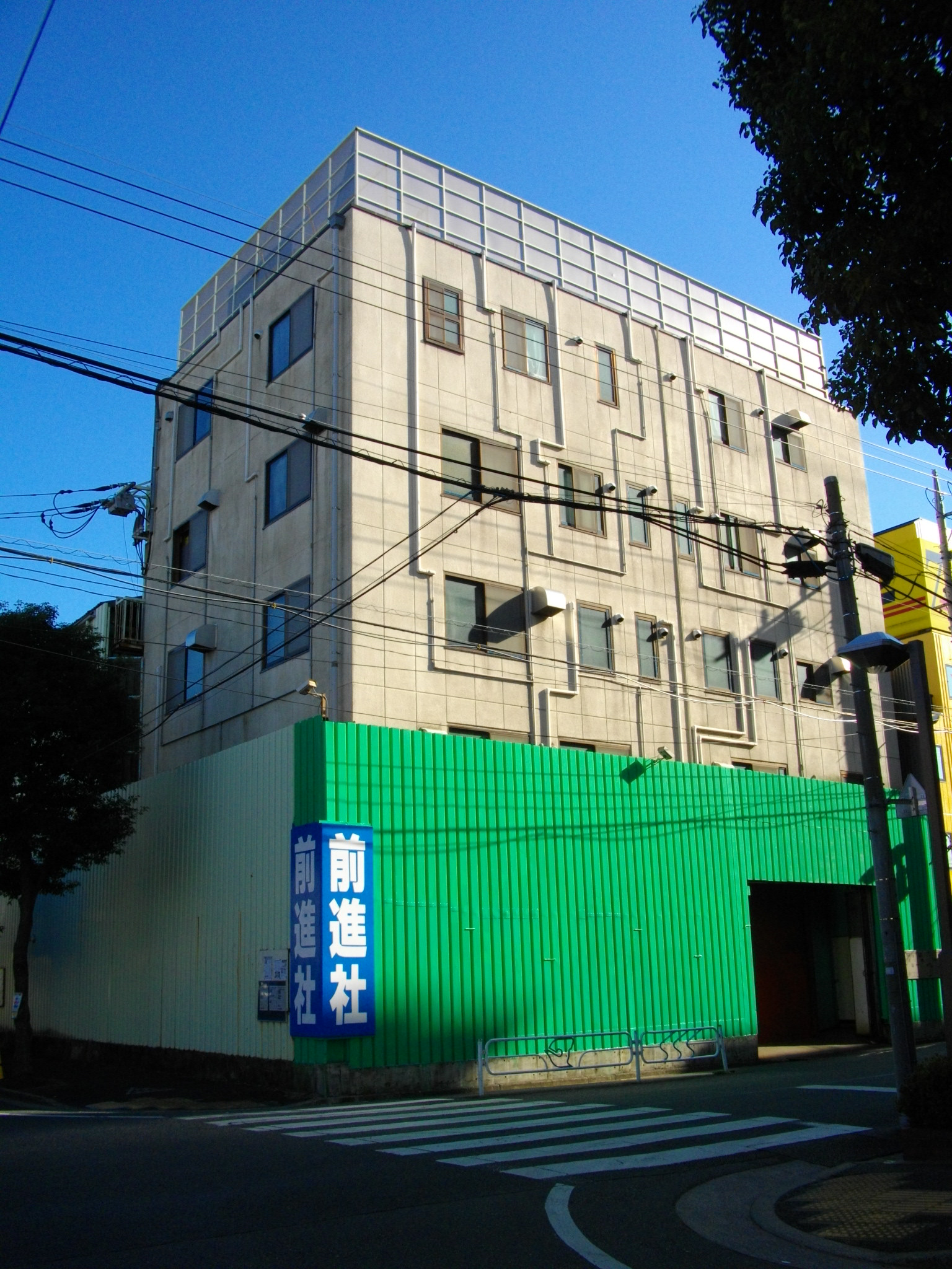 Zenshin-Sha(Chukaku-ha Headquarters). Chukaku-ha is literally "Middle Core Faction". It is a Japanese ultra-left organization.